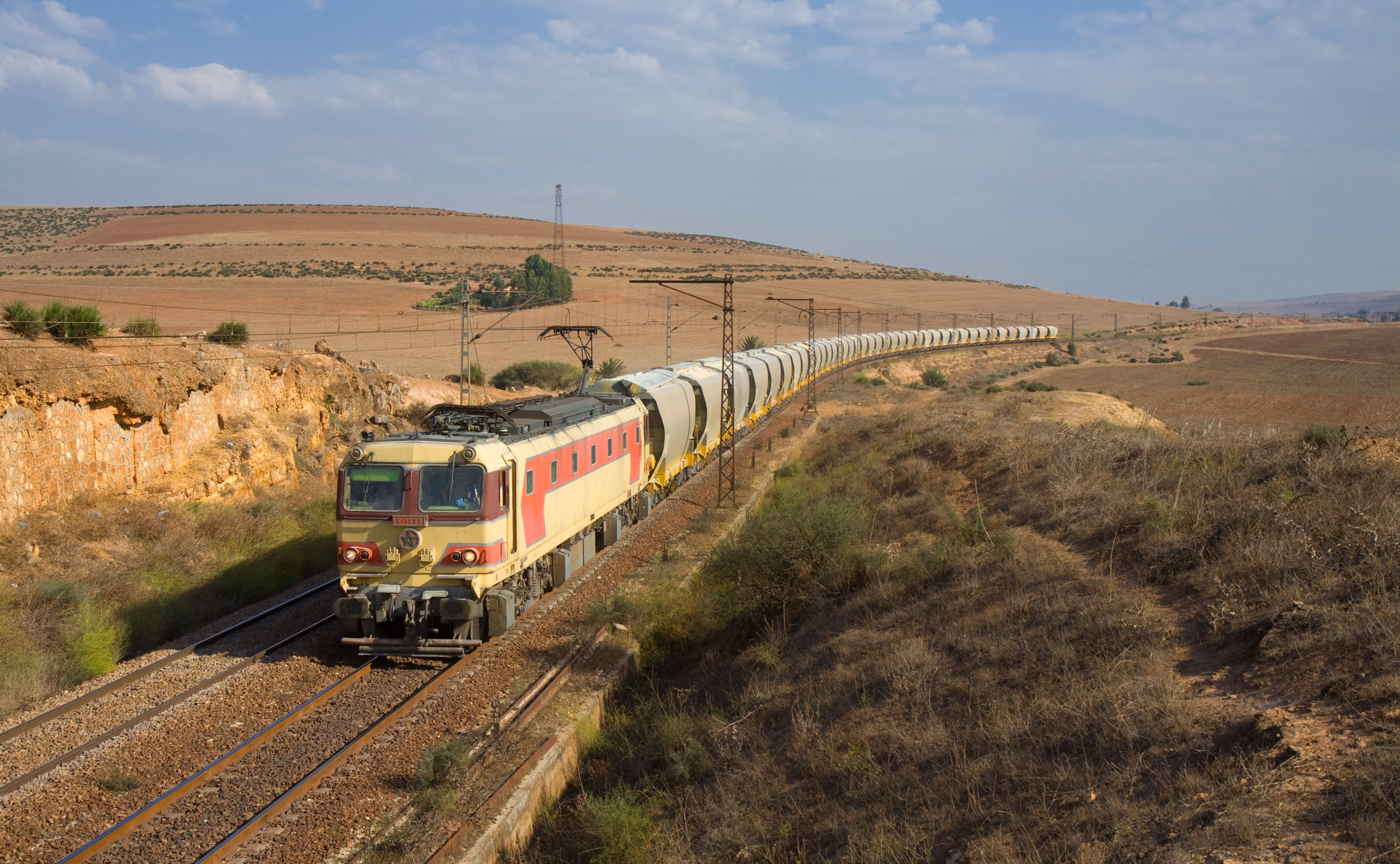 ONCF E 1200, built by Hitachi, with a loaded phosphate train on its way towards Casablanca. The picture was taken between Moualine el Oued and Tamdrost, on the line to Oued Zem.